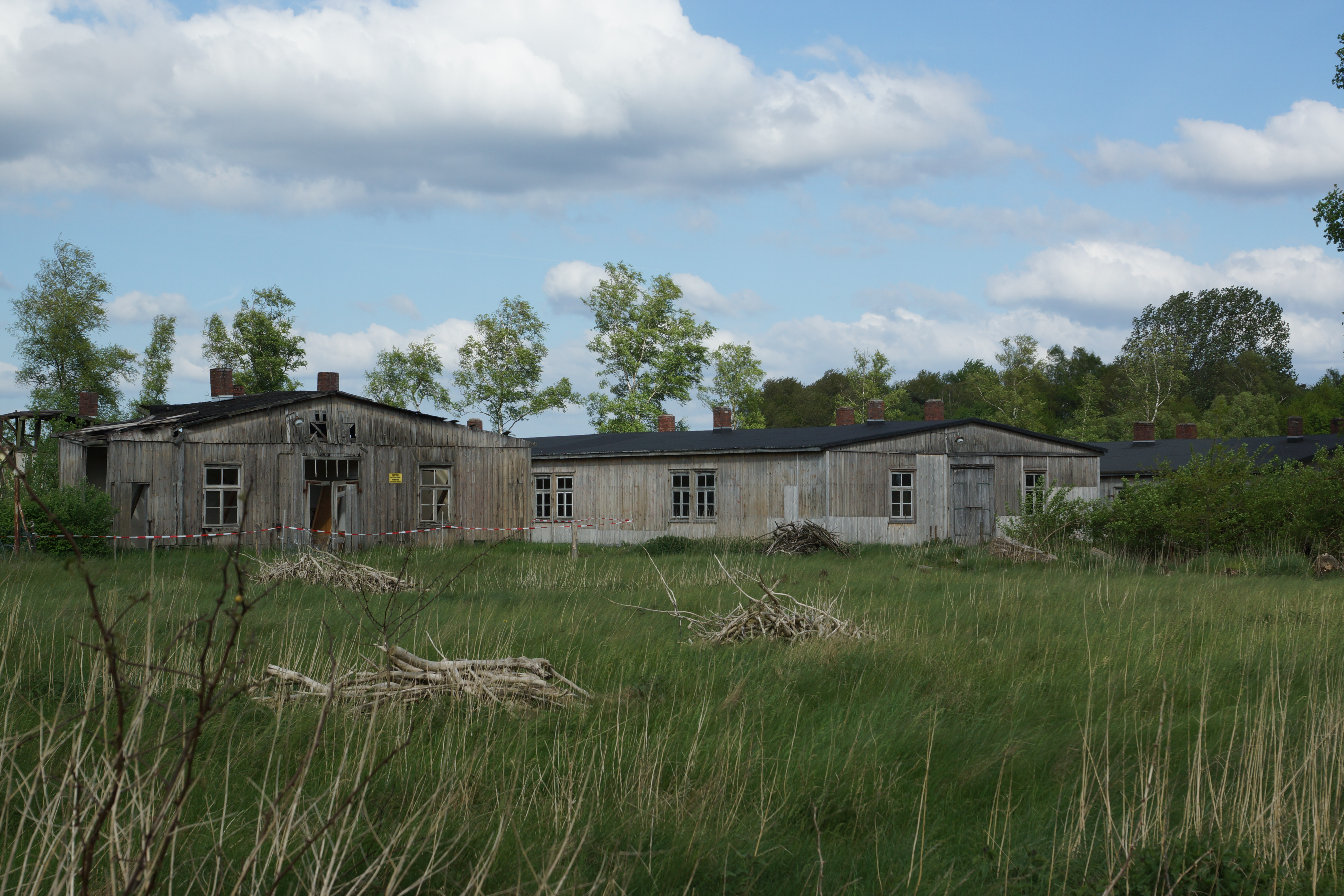 Selsingen (Sandbostel), Germany: Memorial for the Stalag X B, sheds